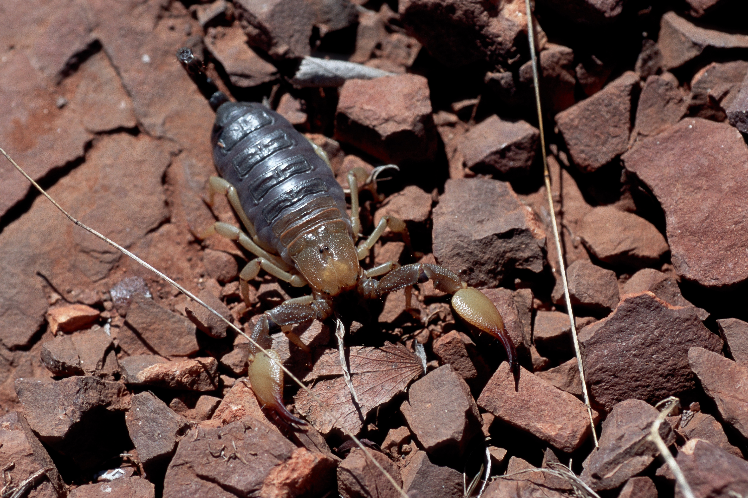 Robust Burrowing Scorpion in Damaraland, Namibia